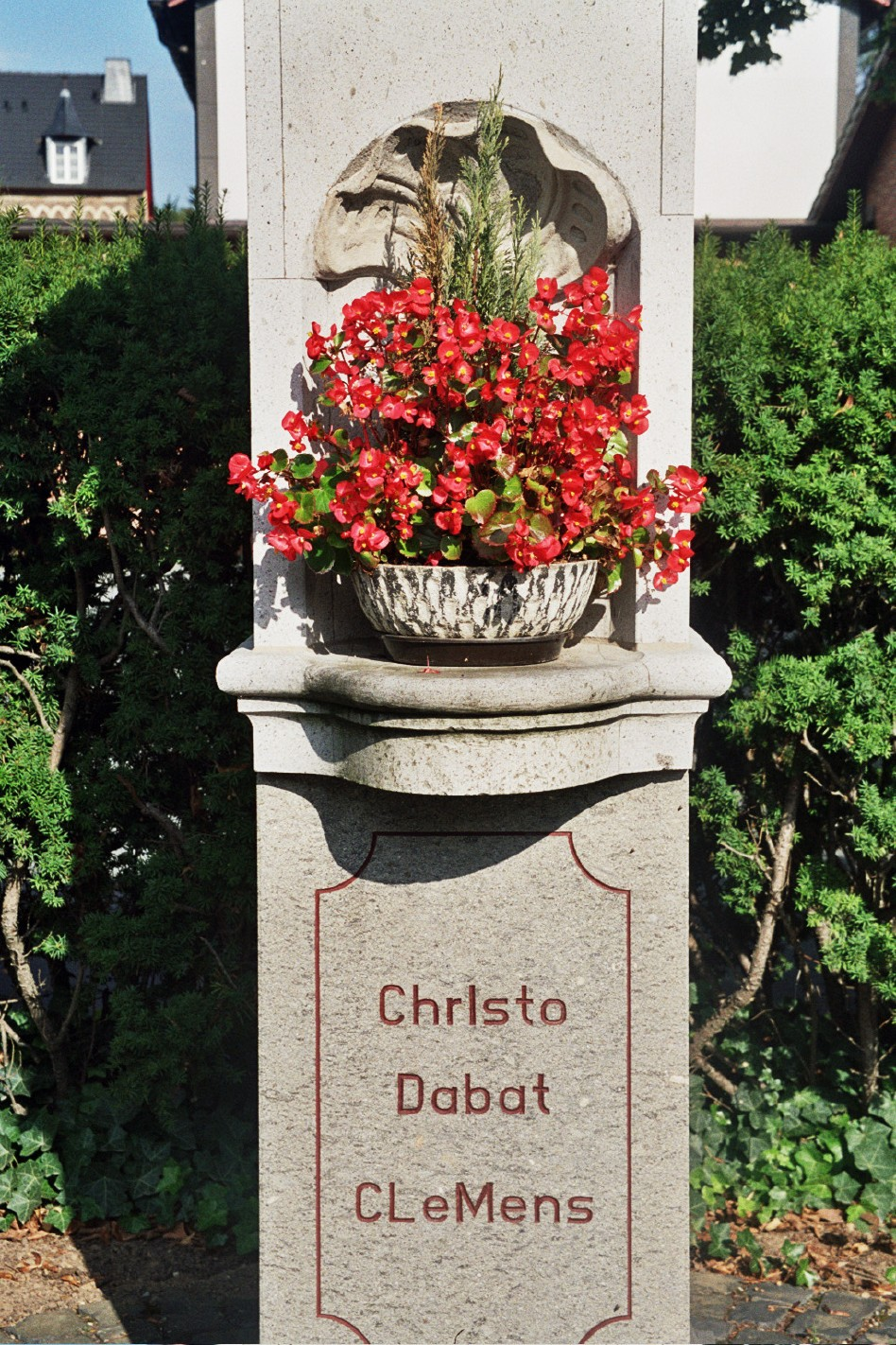 Chronogramm in Hersel, town of Bornheim, Germany near Bonn